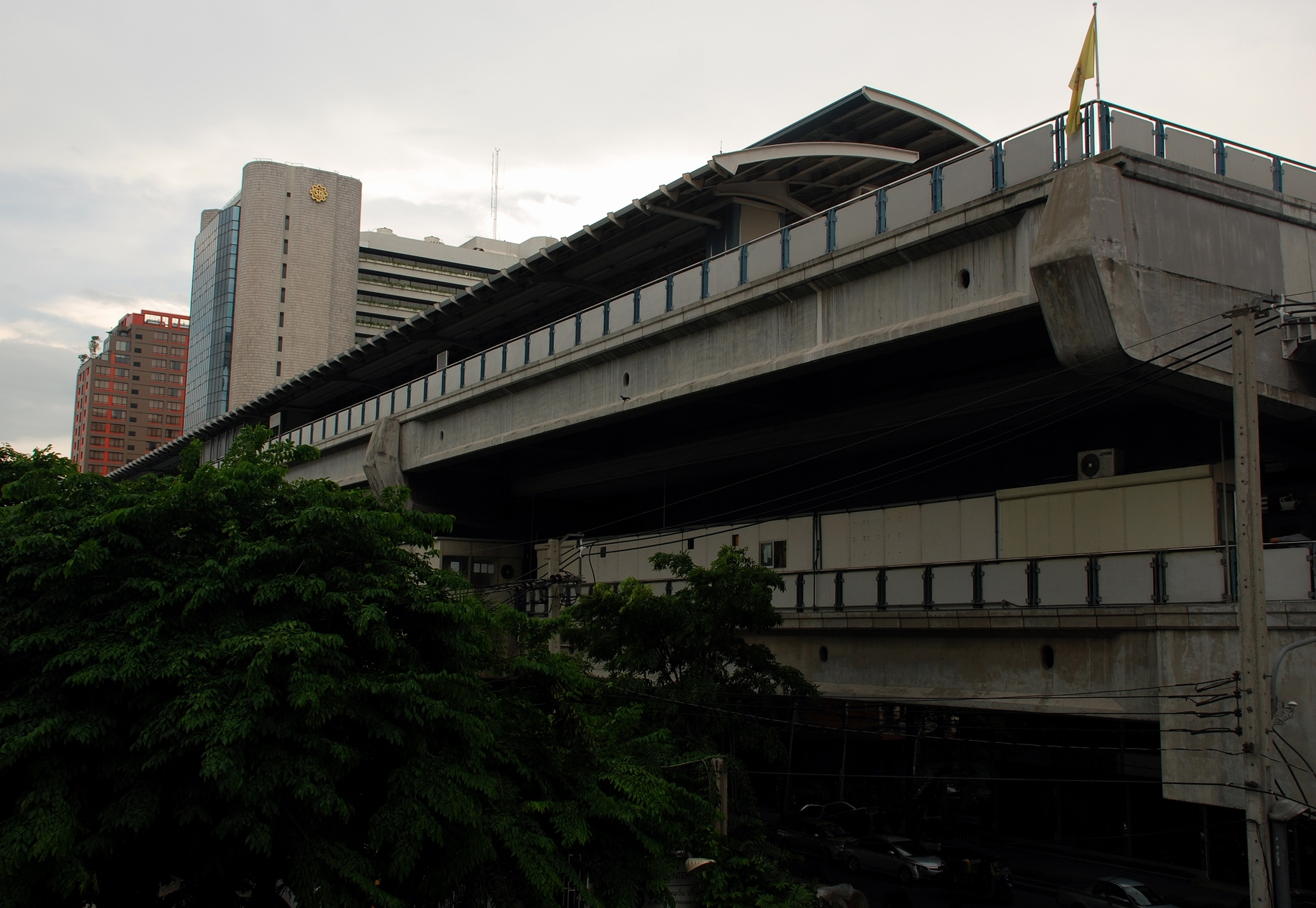 BTS National Stadium Station, Bangkok, Thailand.